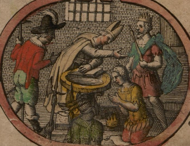 Aethelwalh of Sussex